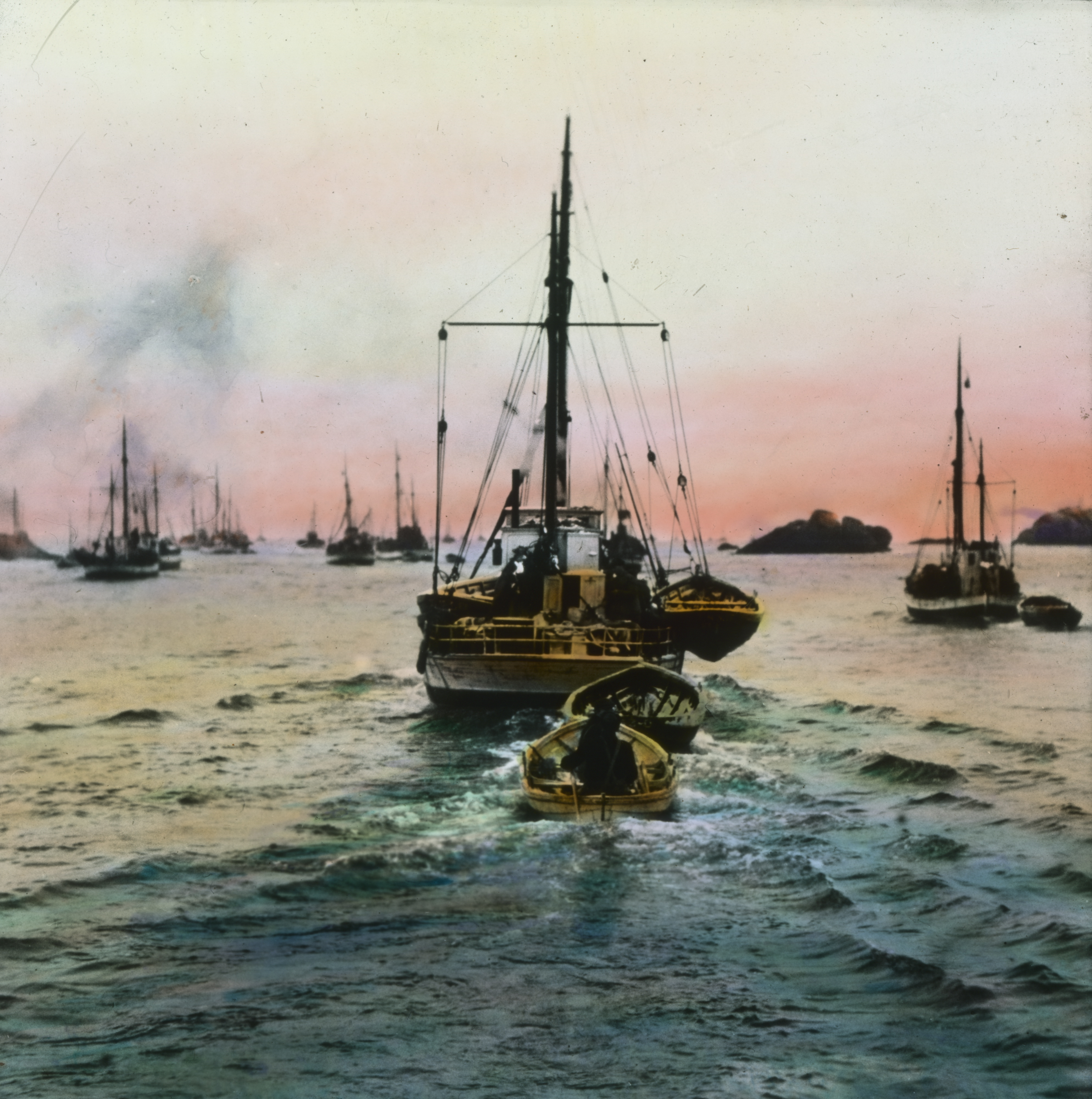 Hand-colored slide. Lofotfisket is the most important season fisheri for cod in Norway. The fishing for "skrei", migrant Atlantic cod, in Lofoten, starts in January and lasts until April.